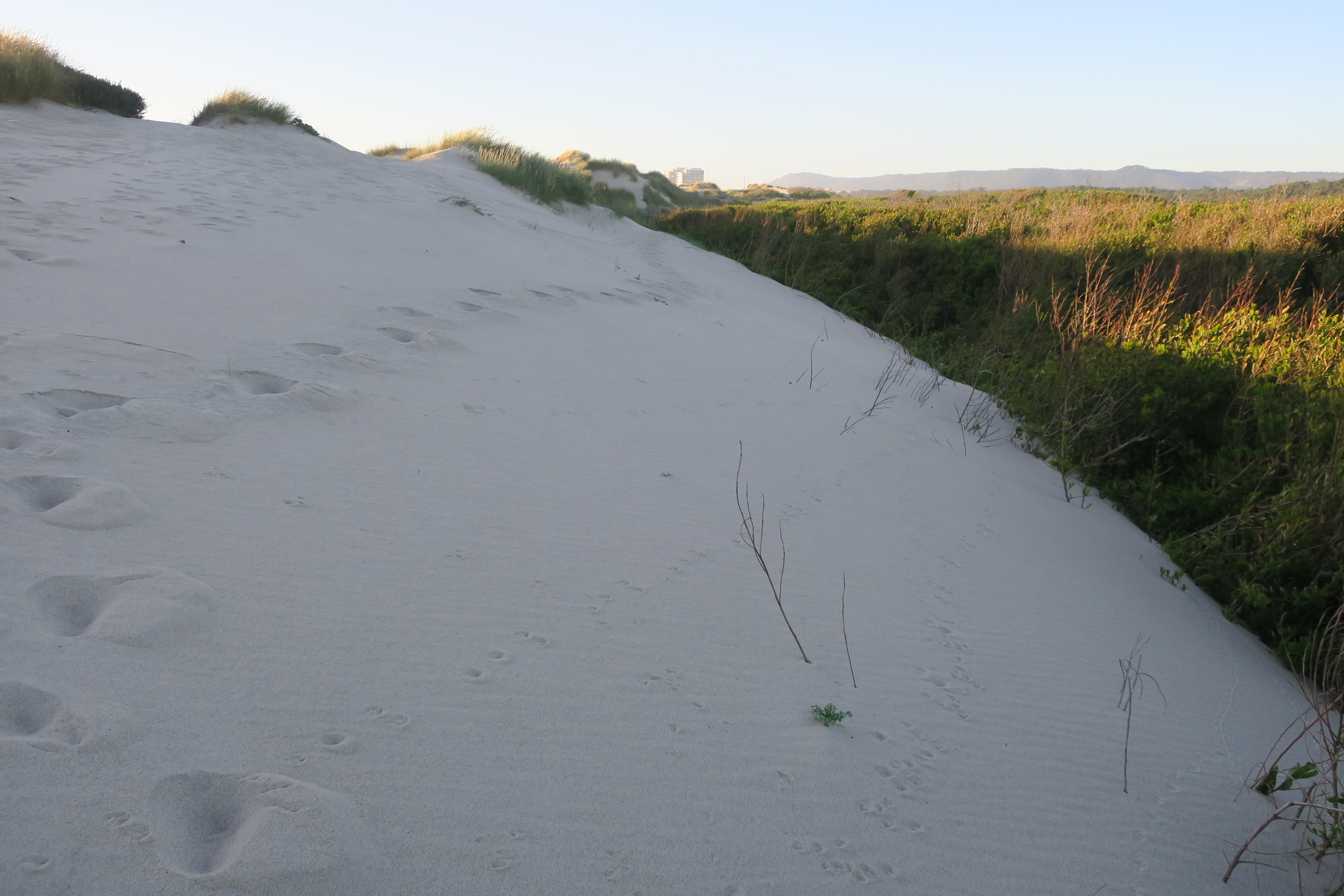 Growing foredune in Parque Litoral Norte, Ofir, Esposende, Portugal